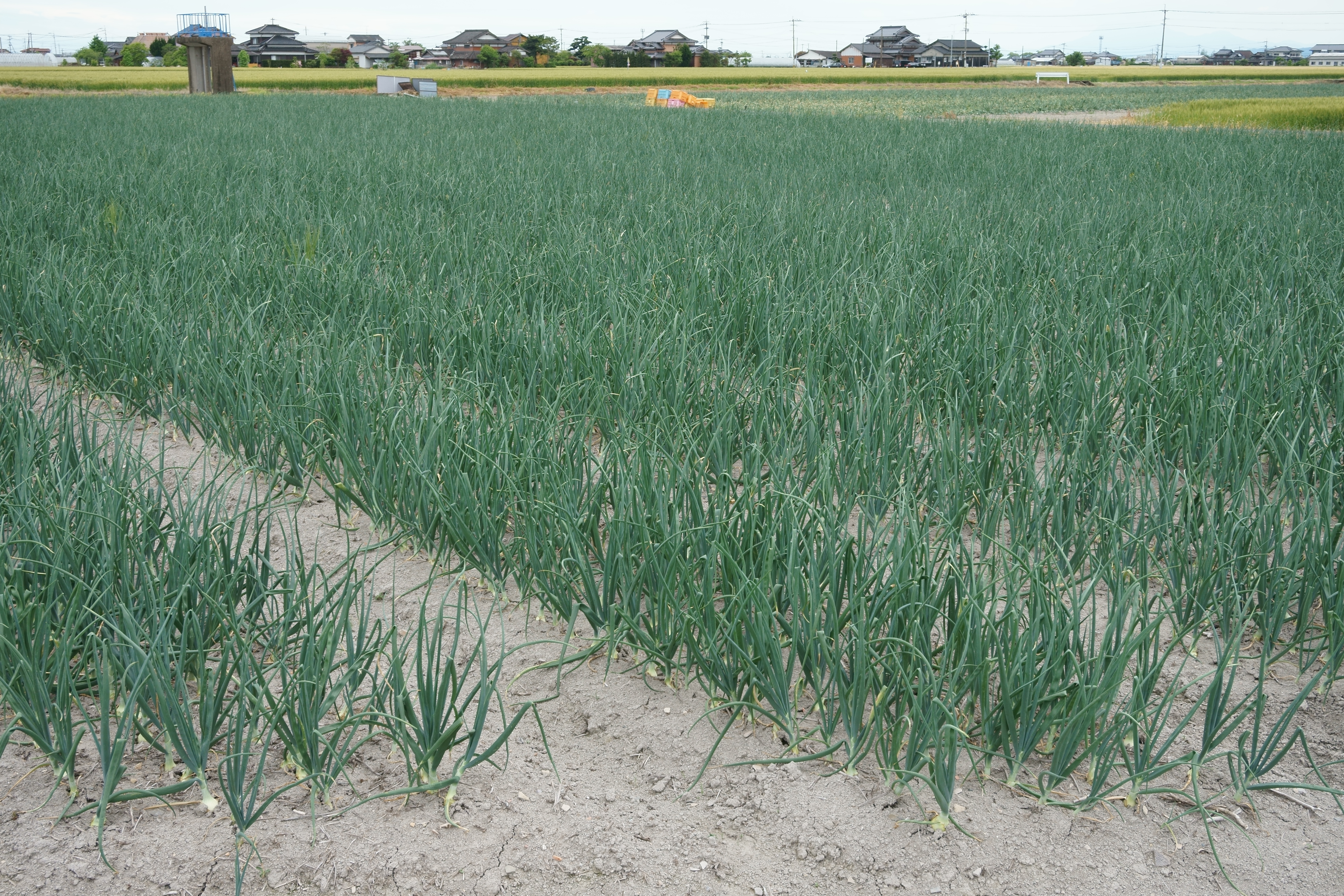 Onion field in Imaizumi, Shiroishi town, Saga prefecture.